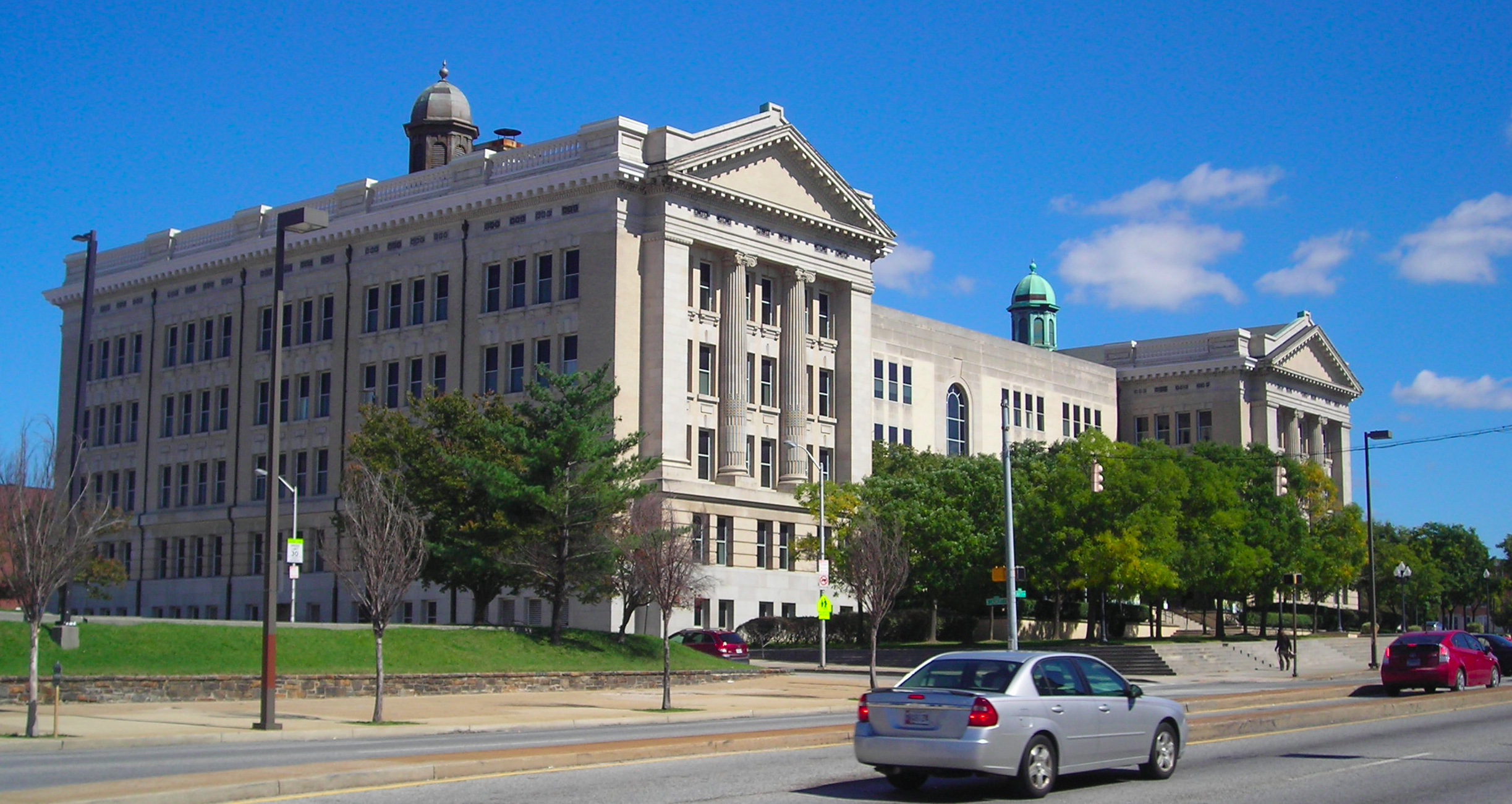 Baltimore City Public School System administration building at 200 E. North Avenue Baltimore, Md. 21202